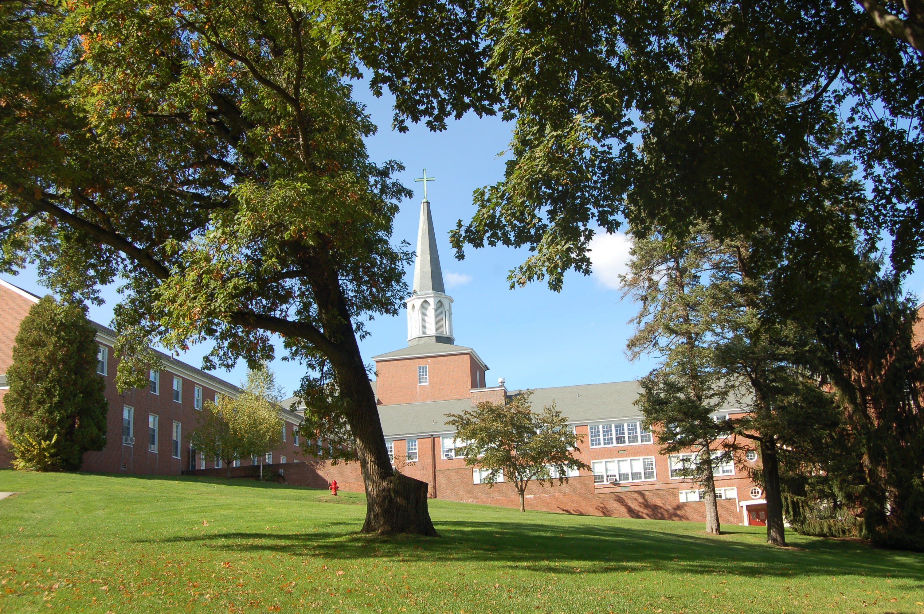 The back of the Kerr building on Gordon-Conwell's Main (Hamilton, MA) Campus.